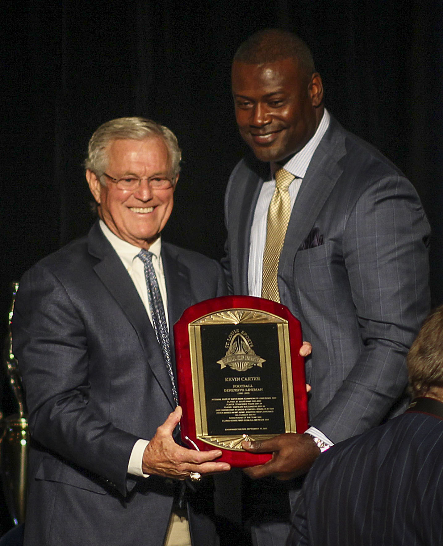 Kevin Carter inducted into the St.Louis Sports Hall of Fame.